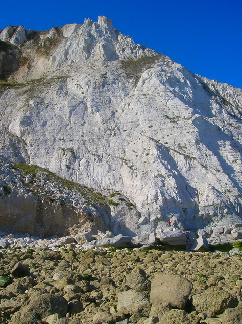 Beachy Head Beachy Head is actually the name of the range of cliffs from the lighthouse to Head Ledge and rise as high as 595 feet. The red speck near the base is one of two fossil hunters hammering away at the chalk.